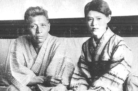 Film director Shōzō Makino (left) and his daughter, actress Teruko Makino